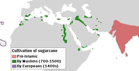 Author: User:Bless_sins. Source: I saw this map in: Watson, Andrew. Agricultural innovation in the early Islamic world. Cambridge University Press. p. 16. Looking at it I drew an approximation. Use rationale: I made it myself. The template map was free-use. The westward diffusion of sugarcane in pre-Islamic times (shown in red), in the medieval Muslim world (green), and in the 15th century Portuguese on the Madeira archipelago, and the Spanish on the Canary Islands archipelago (islands west of Africa, circled by violet lines)